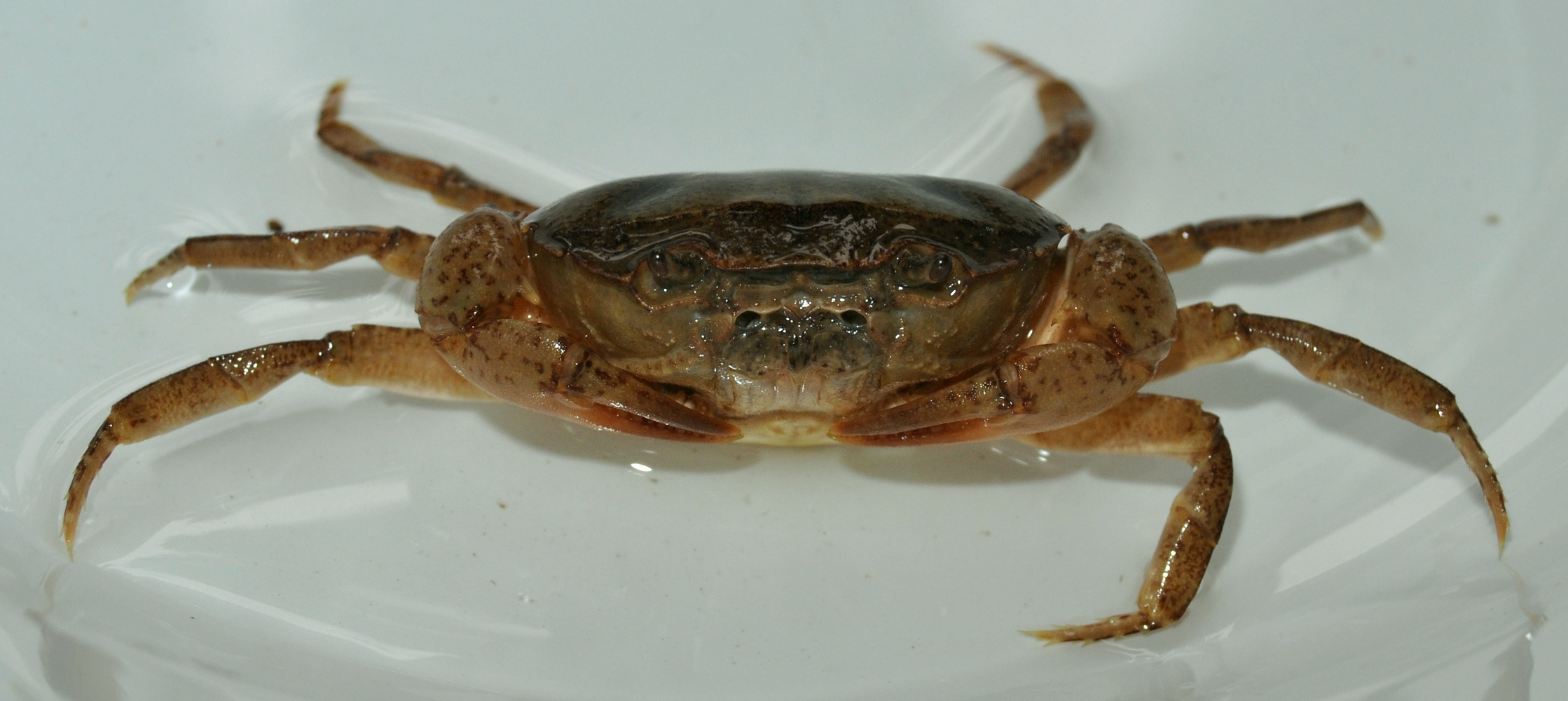 Parathelphusa convexa, female 30mm CW (carapace width); front view. From Bogor, West Java, Indonesia.